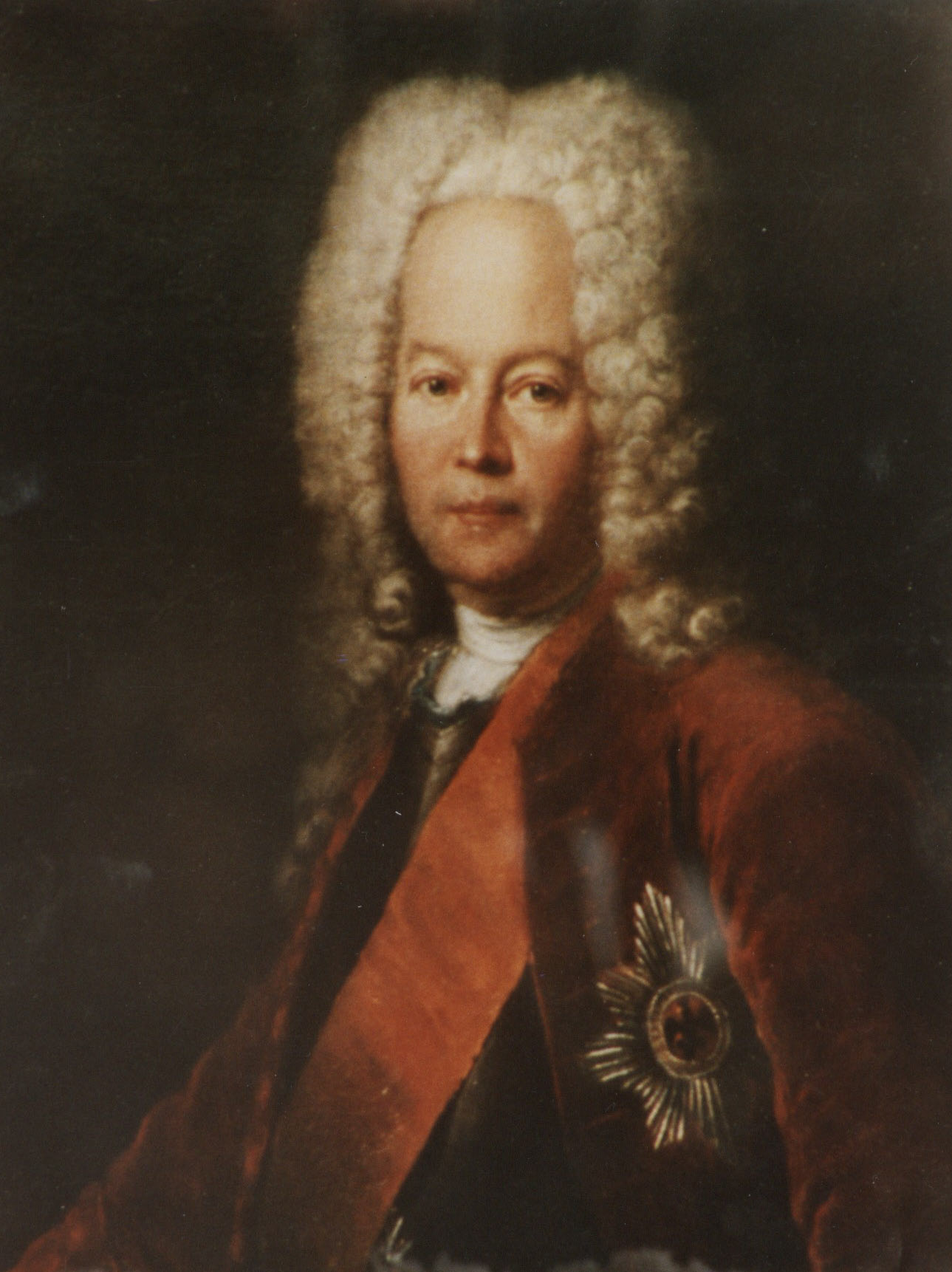 Johann August Marschall von Bieberstein († 18 July 1736), polish Politician and prussian Kriegsrat